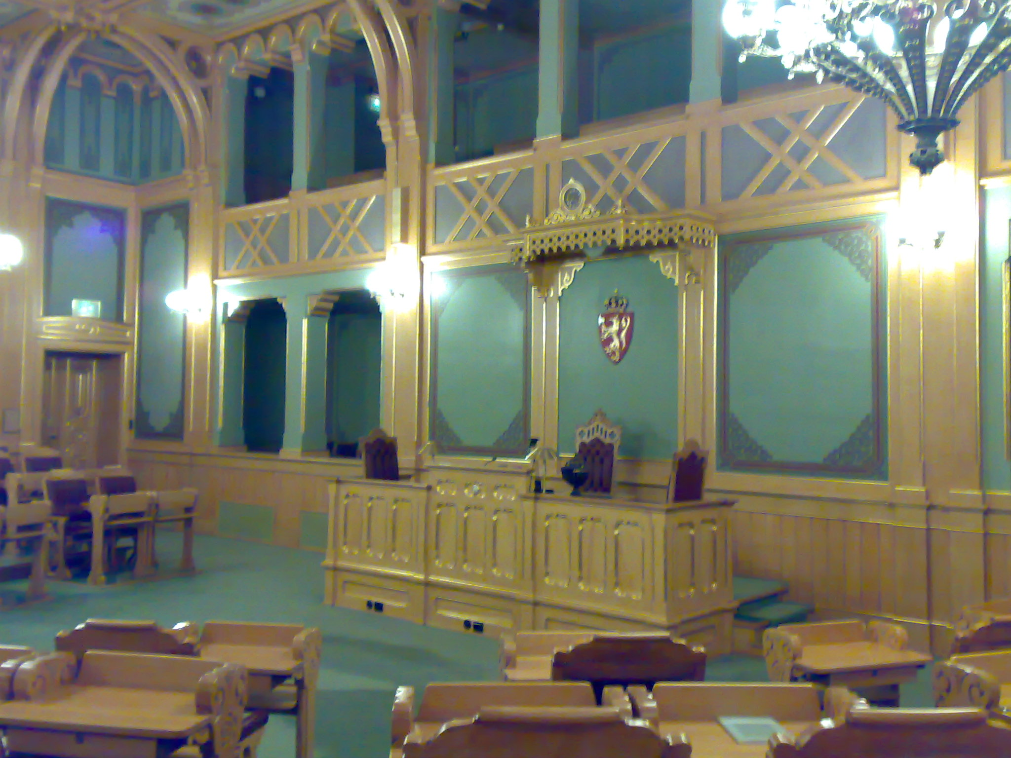 Stortinget building - the Lagtinget chamber